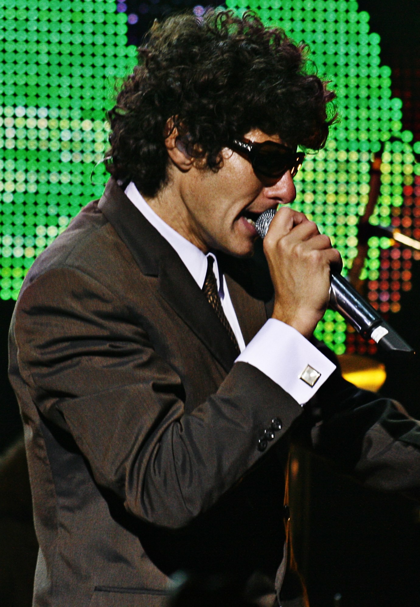 Michael Diamond, Beastie Boys at Brixton Academy - 05/09/07